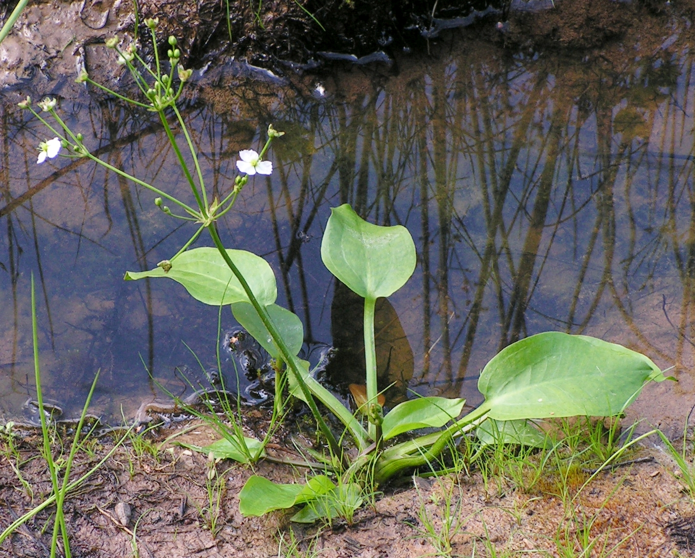 The flowering plant of Alisma plantago-aquatica. Moscow region, Russia.